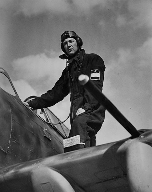 Porträtt av Bengt Nordenskiöld, chef för flygstaben och E 1, första flygeskadern, i flygardräkt på flygplansvinge.